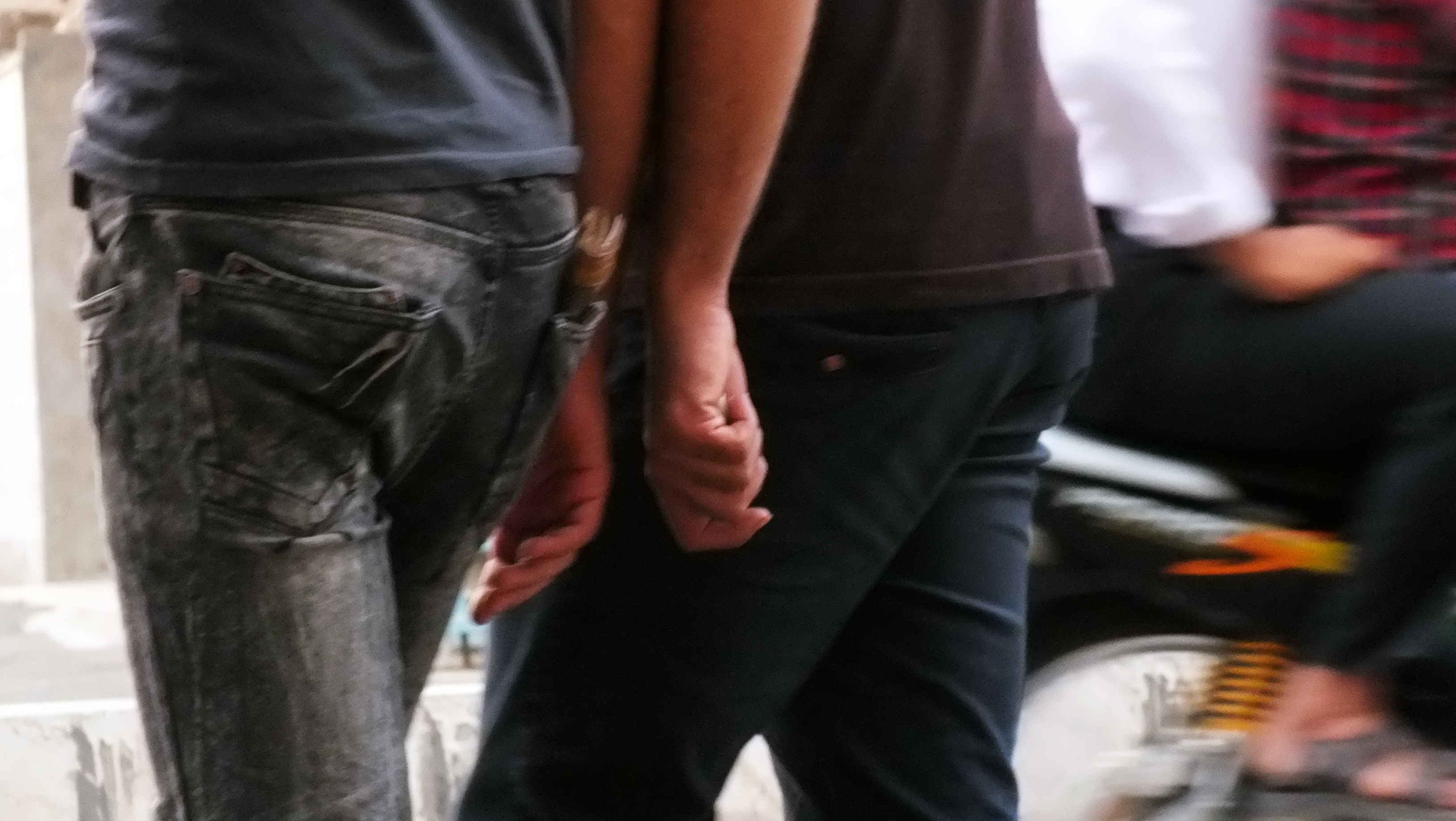 Bottom of two man and wallet